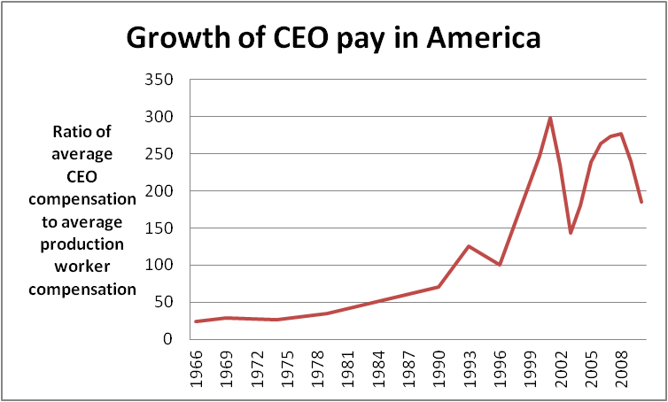 Ratio of average CEO compensation to average production worker compensation Source: More compensation heading to the very top Economic Policy Institute. 2010